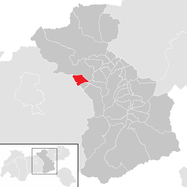 District Schwaz